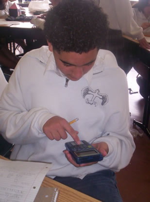 A student using a calculator. I, Charles Nguyen, am the creator.